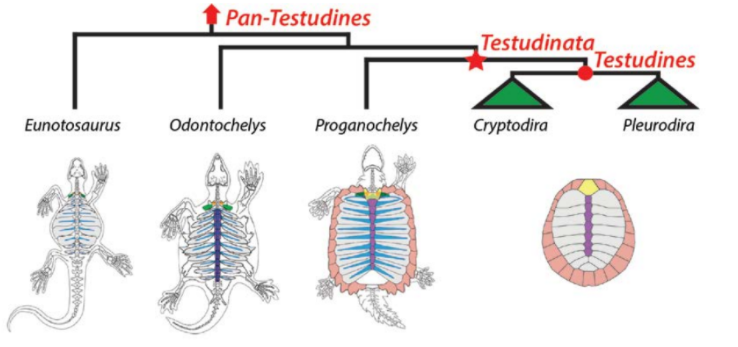 Phylogeny of turtle fossils